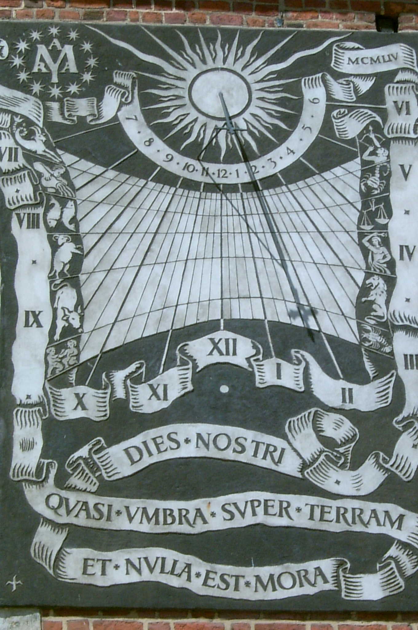 A 1954 sundial, on St. Mary's Basilica, Kraków, Poland.